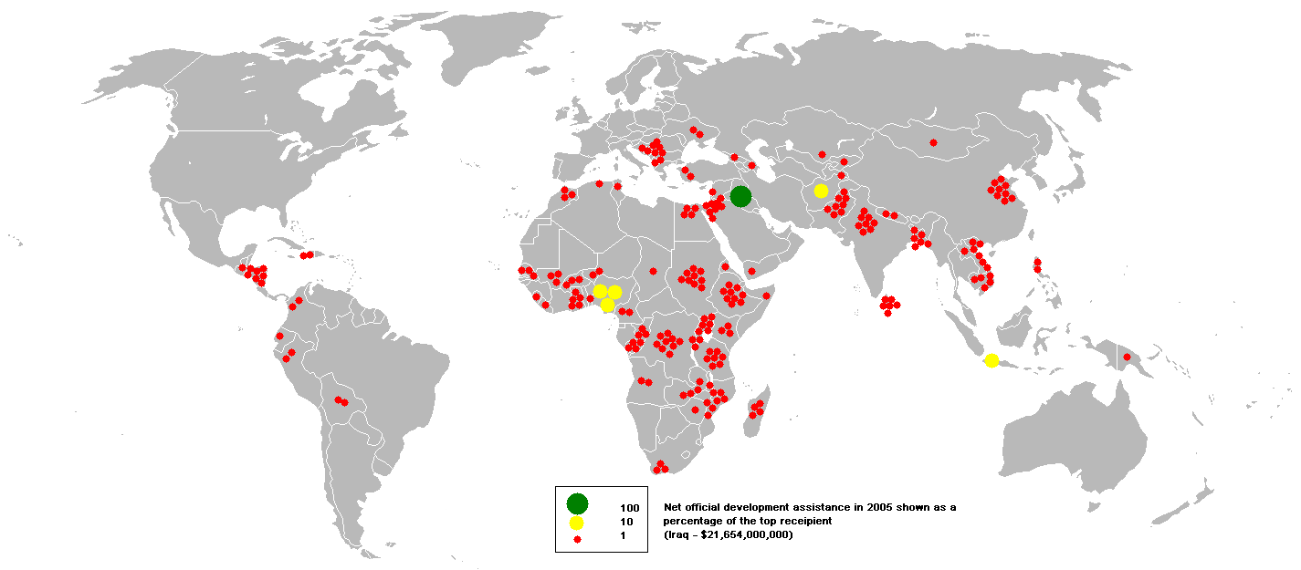 This bubble map shows the global distribution of official development assistance in 2005 as a percentage of the top receipient (Iraq - $21,654,000,000). This map is consistent with incomplete set of data too as long as the top producer is known. It resolves the accessibility issues faced by colour-coded maps that may not be properly rendered in old computer screens. Data was extracted on 19th June 2007. Source - Based on :Image:BlankMap-World.png